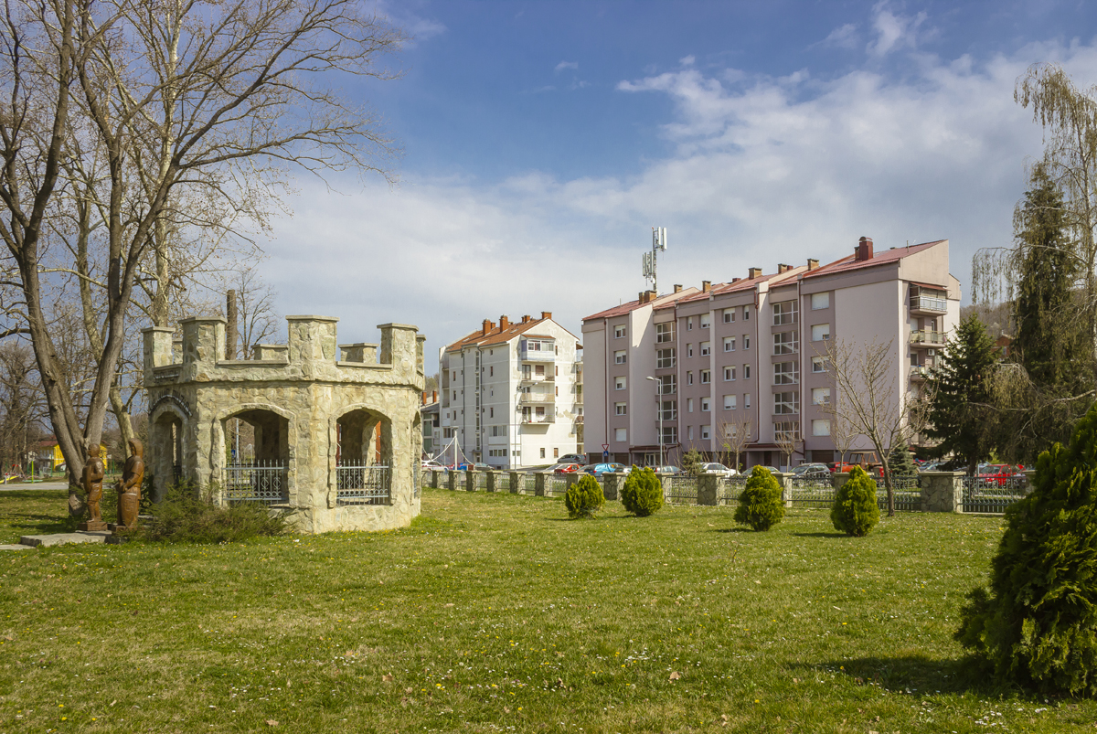 Orahovica